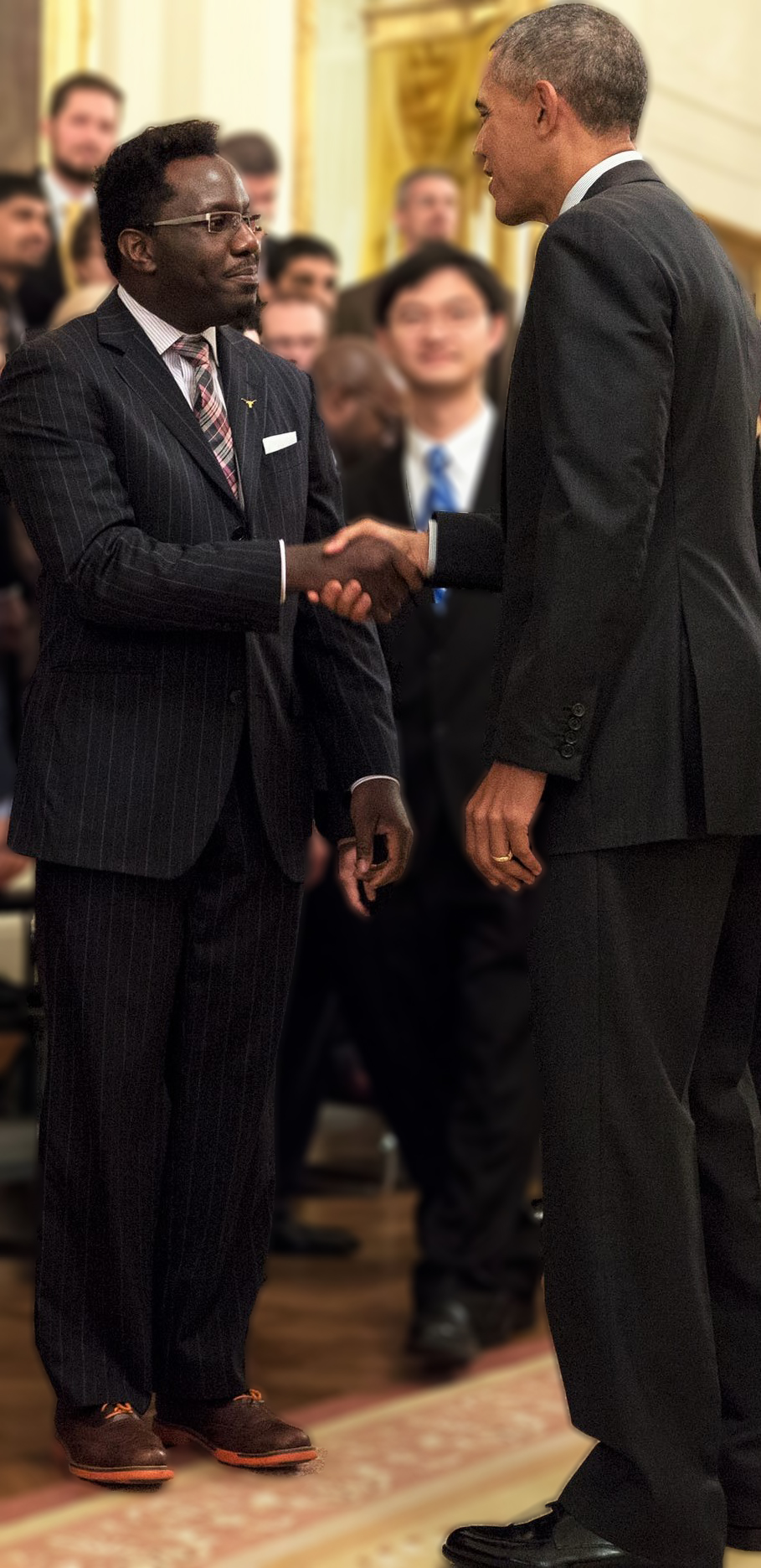 President Barack Obama greets Dr. Deji Akinwande, a recipient of the Presidential Early Career Award for Scientists and Engineers (PECASE) in the East Room of the White House, May 5, 2016. (Official White House Photo by Pete Souza)